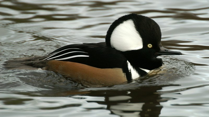 Hooded Merganser (Lophodytes cucullatus)